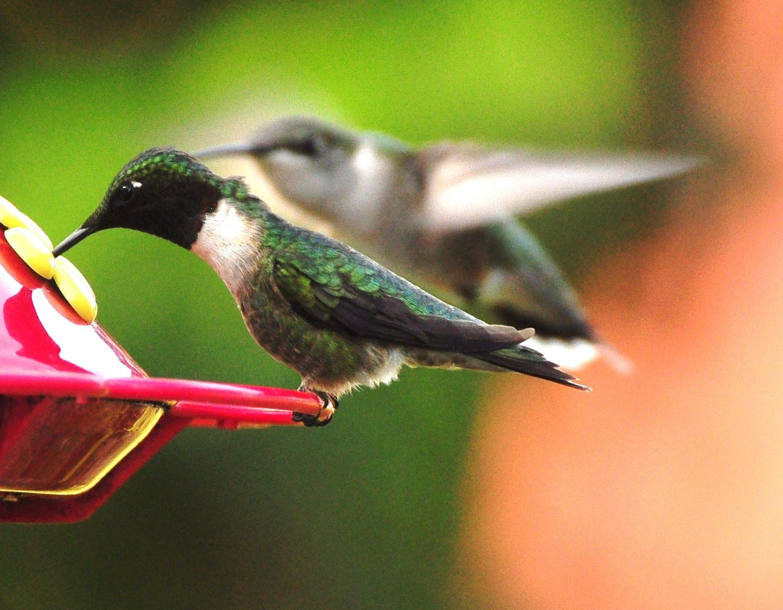 Ruby-throated Hummingbird Archilochus colubris, Illinois